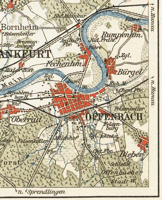 Frankfurt region, 1893: Offenbach am Main and vicinity. The industrial town, Frankfurt's eastern neighbour, was seperated from the latter by the hessian-prussian state border.